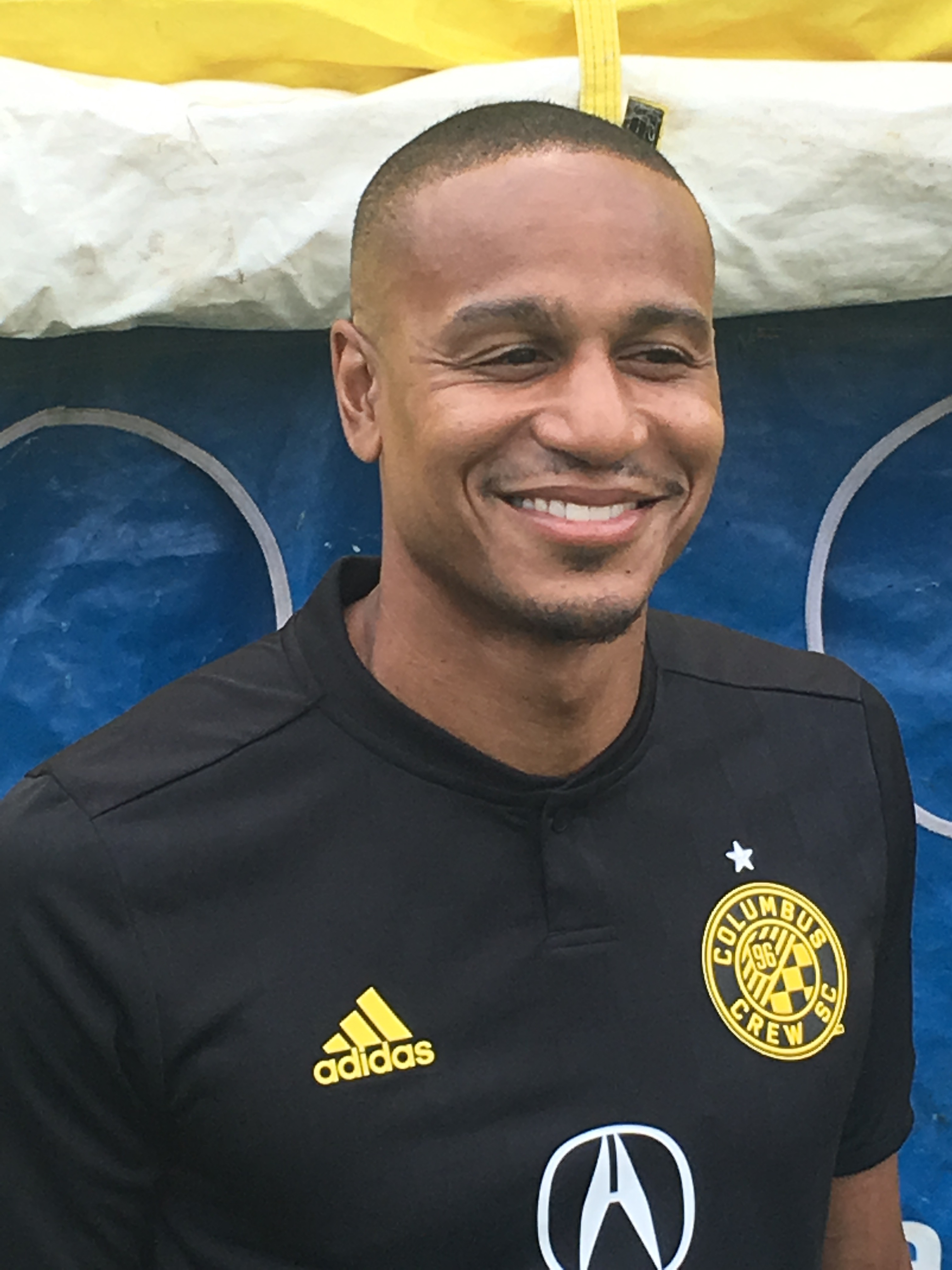 Picture of Ricardo Clark at a Columbus Crew SC Meet the Team event in 2018.